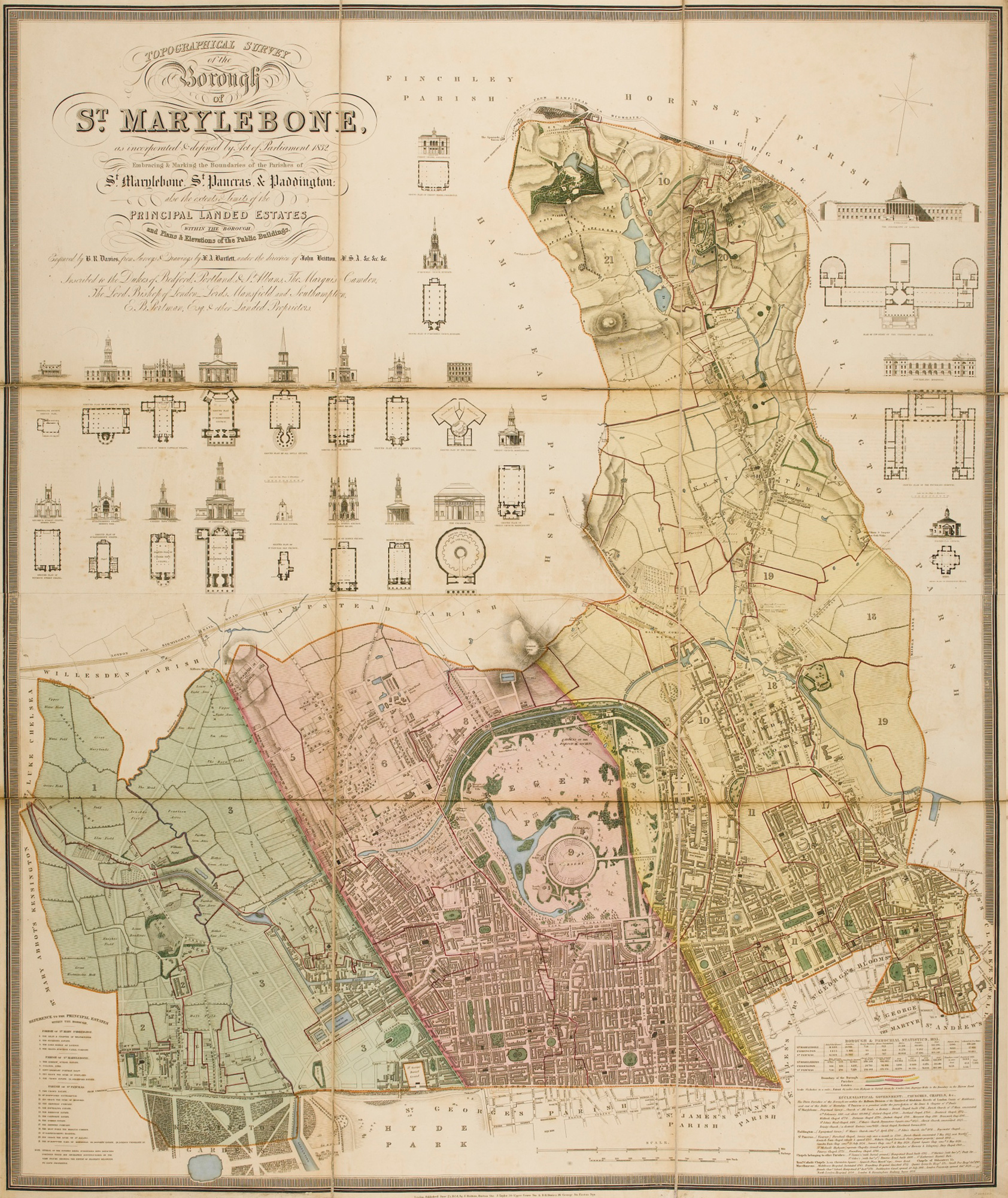 Topographical survey of the borough of St. Marylebone, as incorporated by Act of Parliament 1832, embracing and marking the boundaries of the parishes St. Marylebone, St. Pancras and Paddington. The plan was engraved by B.R. Davies, blank spaces filled with plans and elevations of 20 important buildings, 1145 x 950mm, dated 1834.